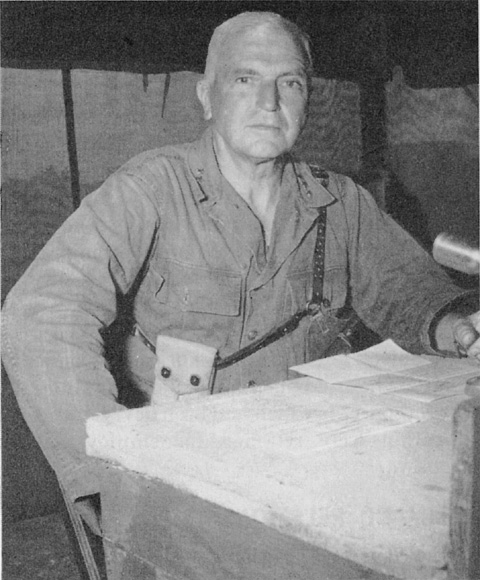 LIEUTENANT GENERAL SIMON B. BUCKNER, Commanding General, Expeditionary Troops (Tenth Army), in the Okinawa operation. General Buckner was killed in action just prior to the successful ending of the campaign.